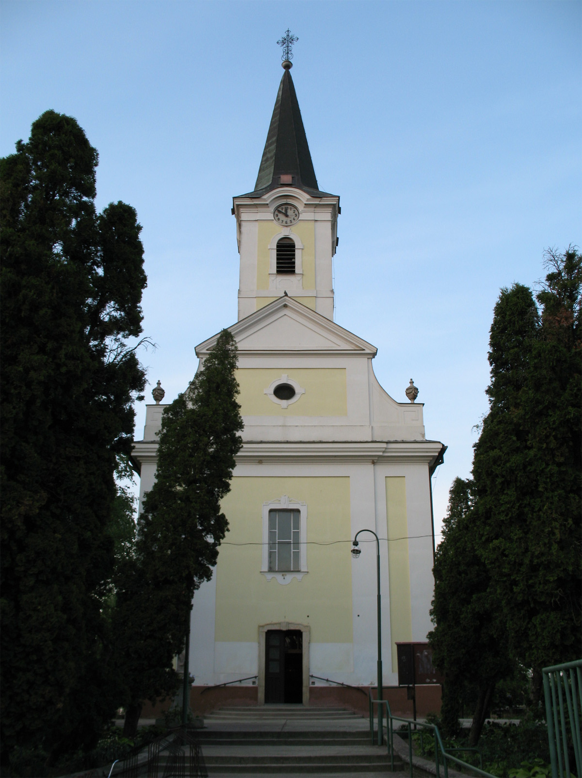 Church of Šoporňa